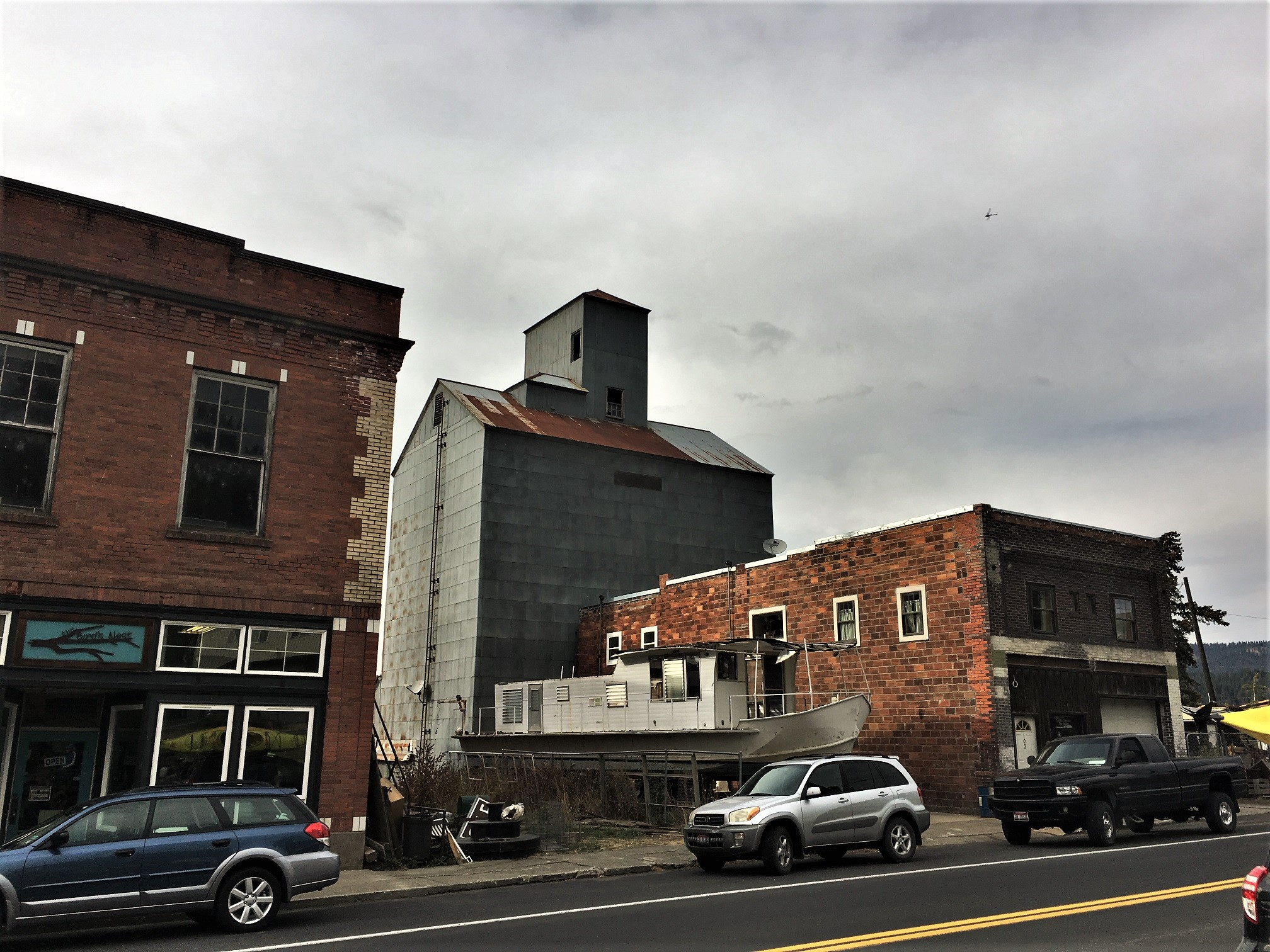 Harrison Commercial Historic District View of the west side of Coeur d'Alene Avenue. Masonic Temple building at left; Theatre/Armstrong Garage at right; E.C. Hayes and Sons grain elevator in center background.